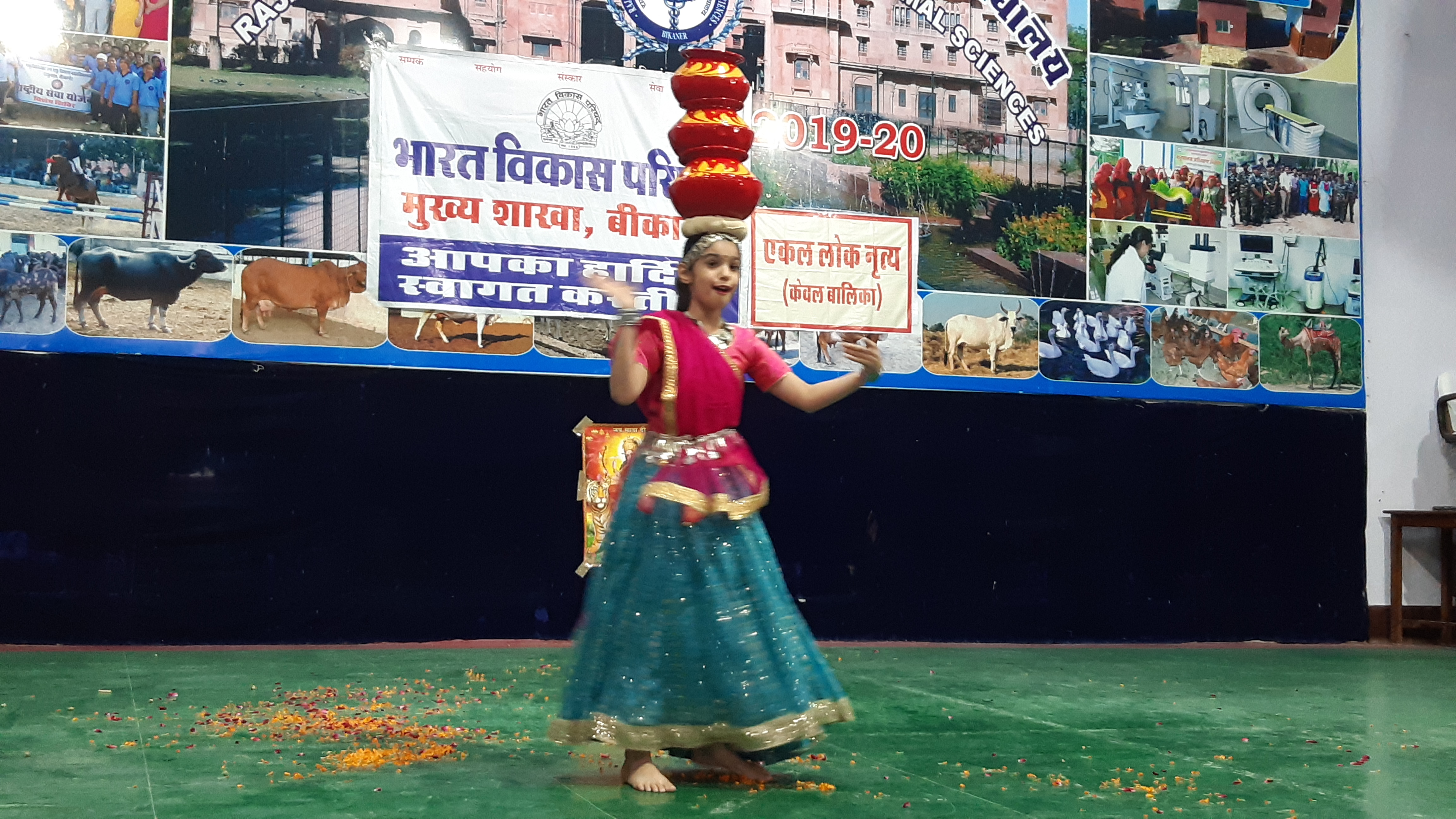 Navya bikaner Raj